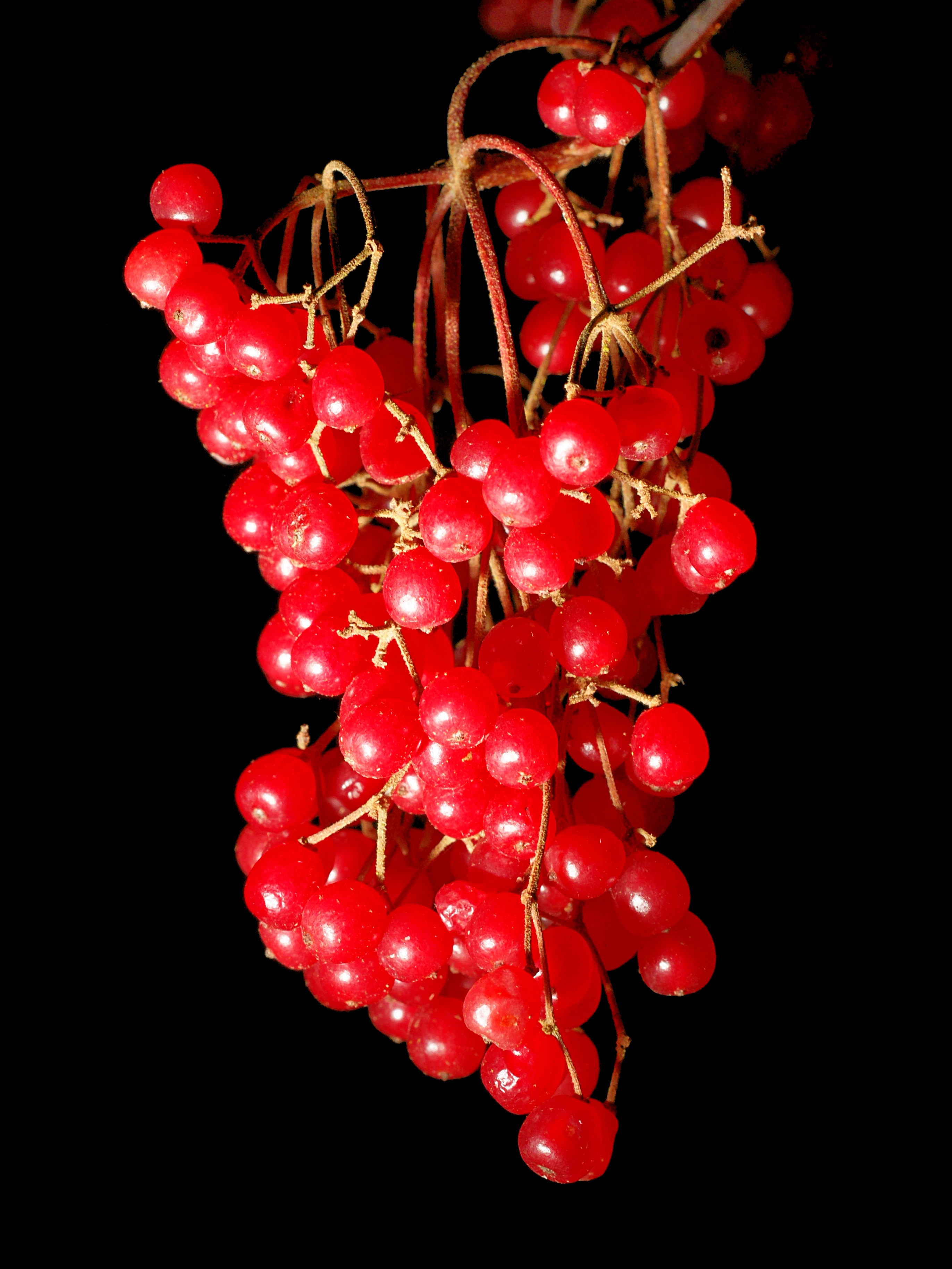 Fruits of Viburnum betulifolium